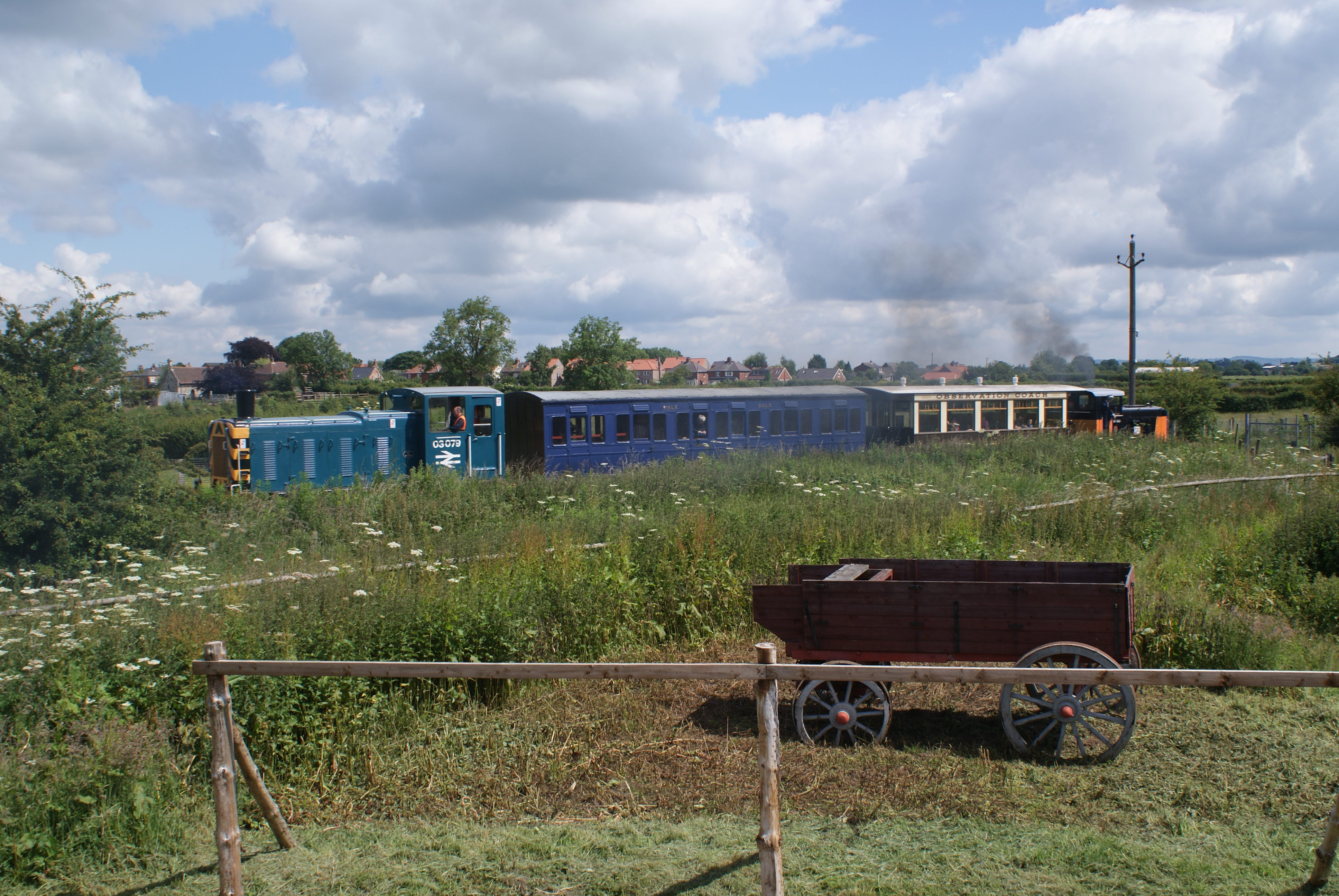 Train on the Derwent Valley Light Railway at the Yorkshire Museum of Farming near York, England